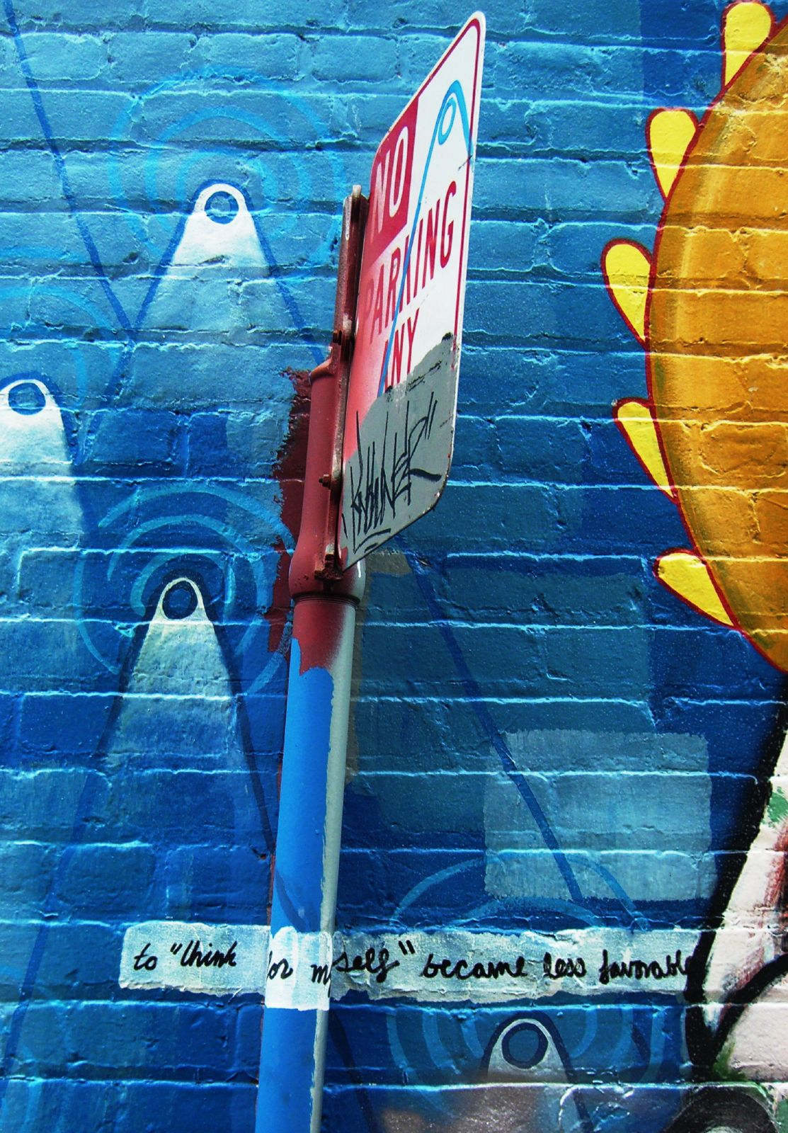 nothing gets in the way